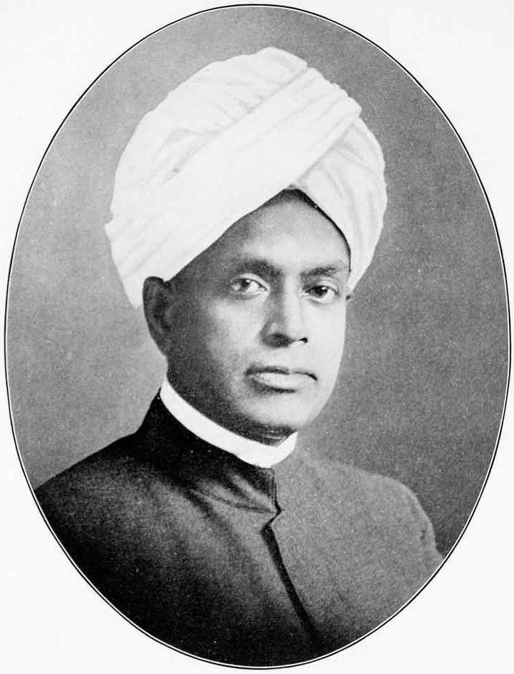 Photograph of Solicitor General of Ceylon Sir Ponnambalam Ramanathan.